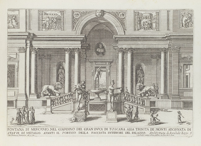 Heilbrunn Timeline of Art History